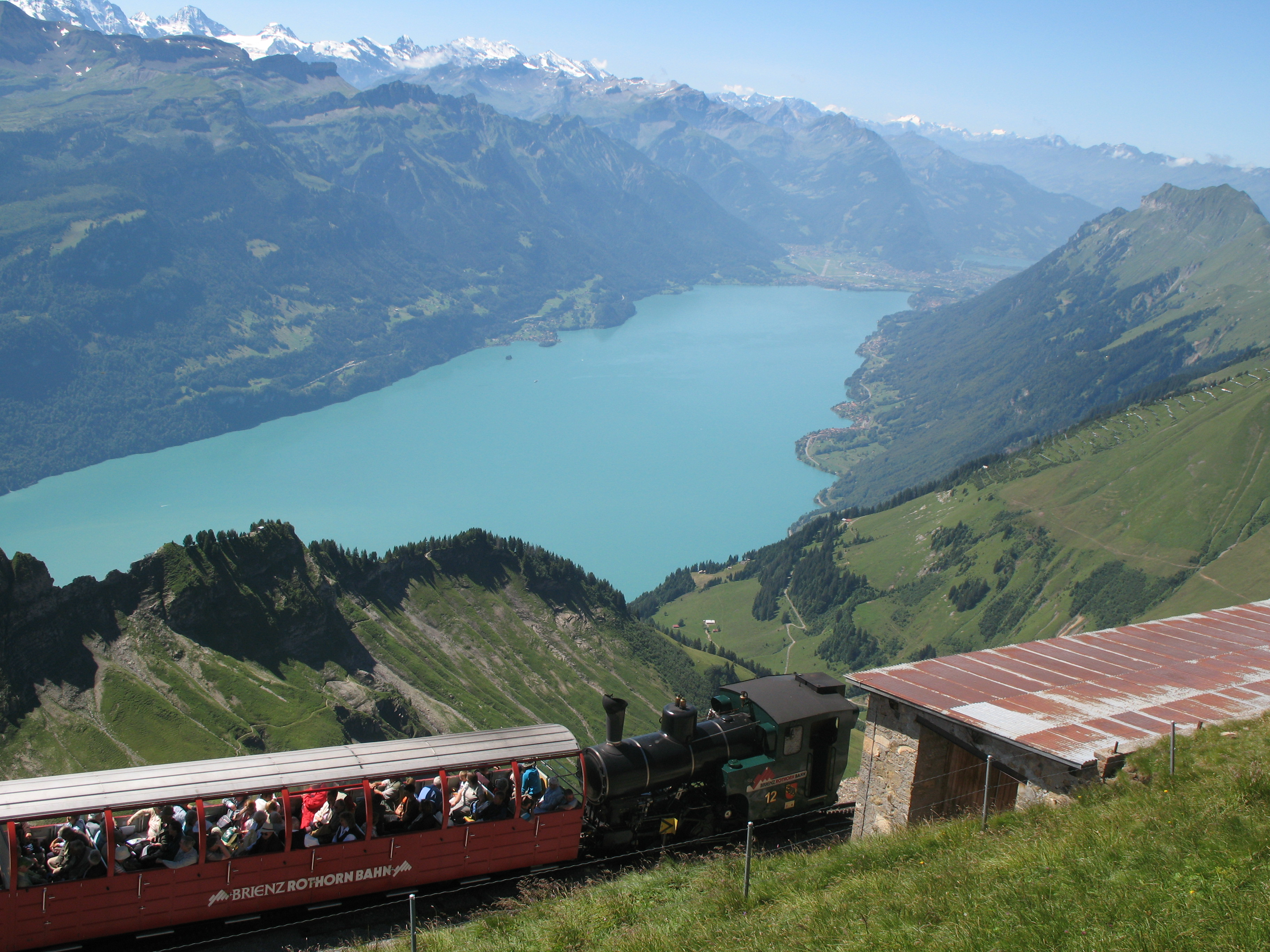 View from Rothorn, Brienz, Switzerland. In the foreground is the upper station of the Brienz Rothorn Bahn, with the lower reaches of Lake Brienz behind. Interlaken can be seen at the end of the lake in the distance, with just a glimpse of Lake Thun beyond.